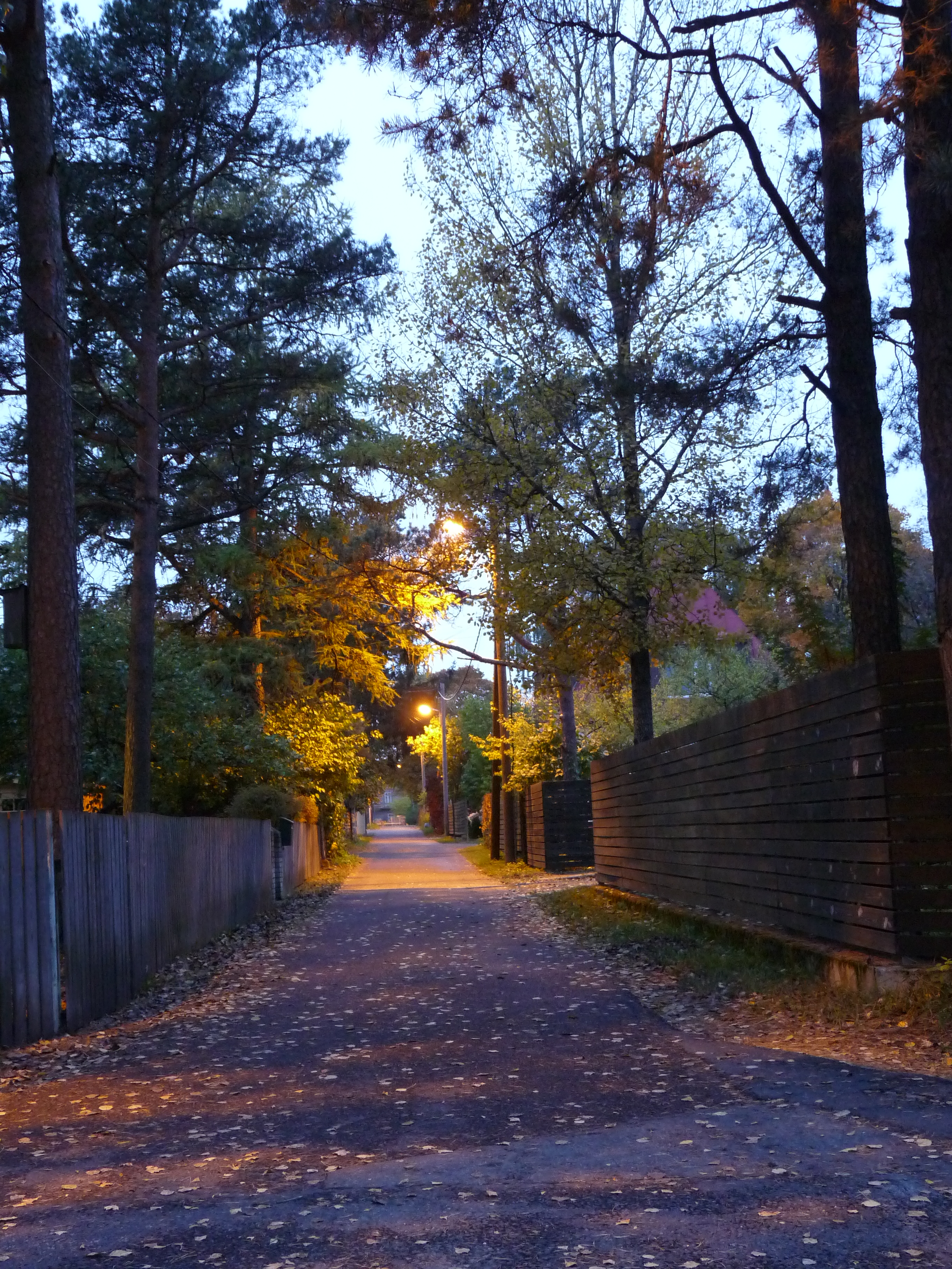 Kagu street in Tallinn, Estonia